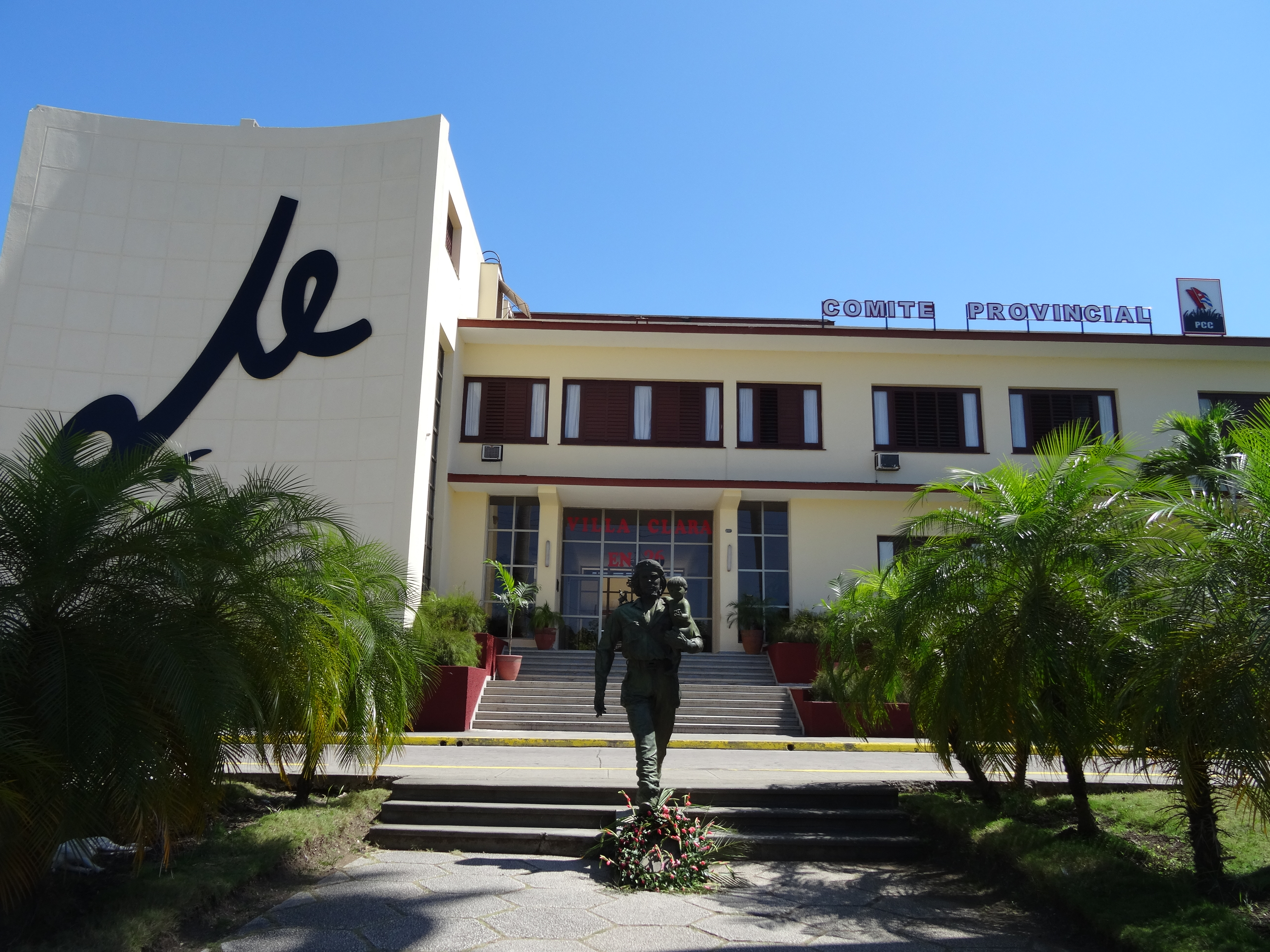 Cuba Santa Clara Che with little boy